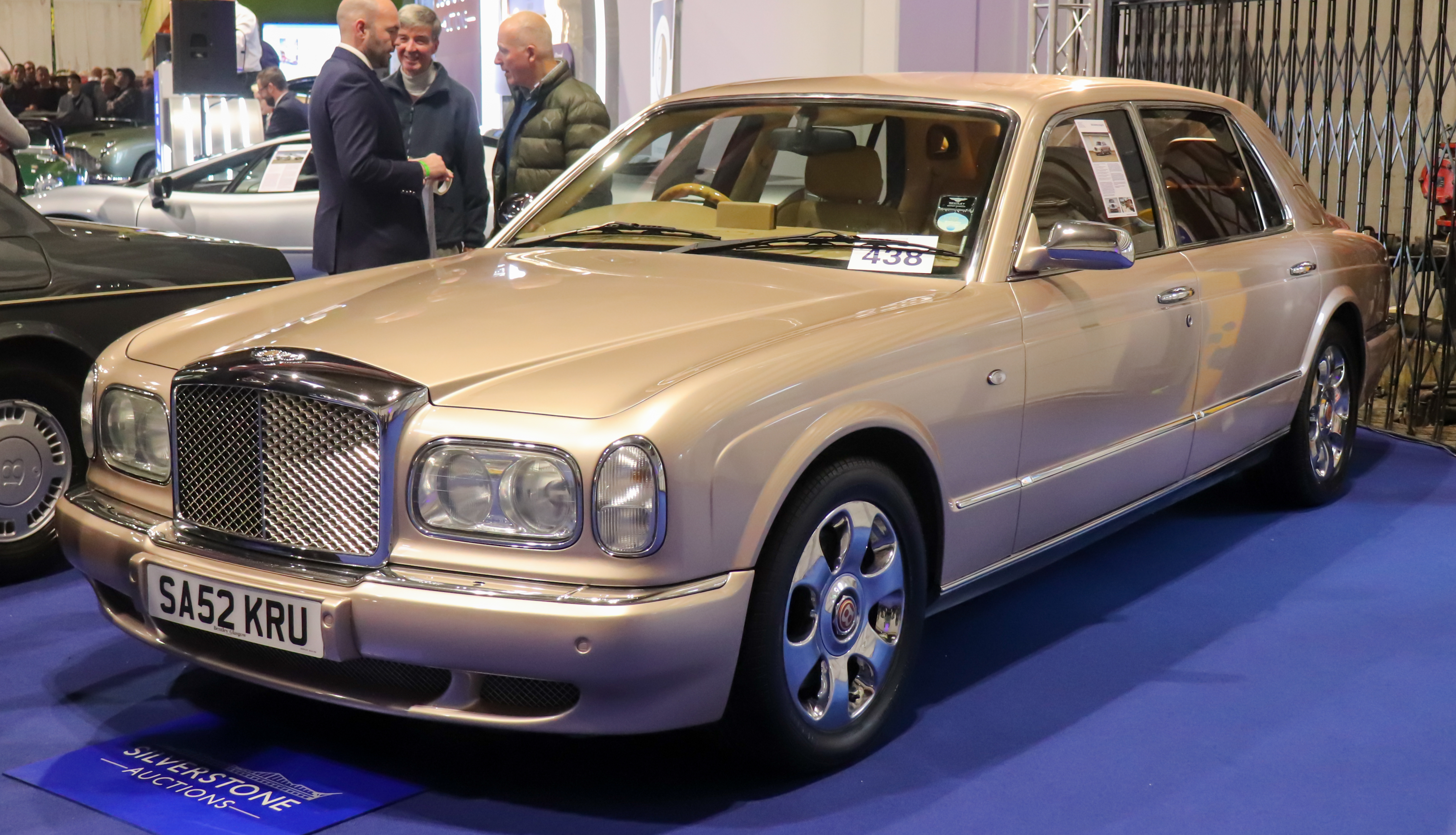 2002 Bentley Arnage RL Automatic 6.8 Taken at the NEC Classic Motor Show 2019